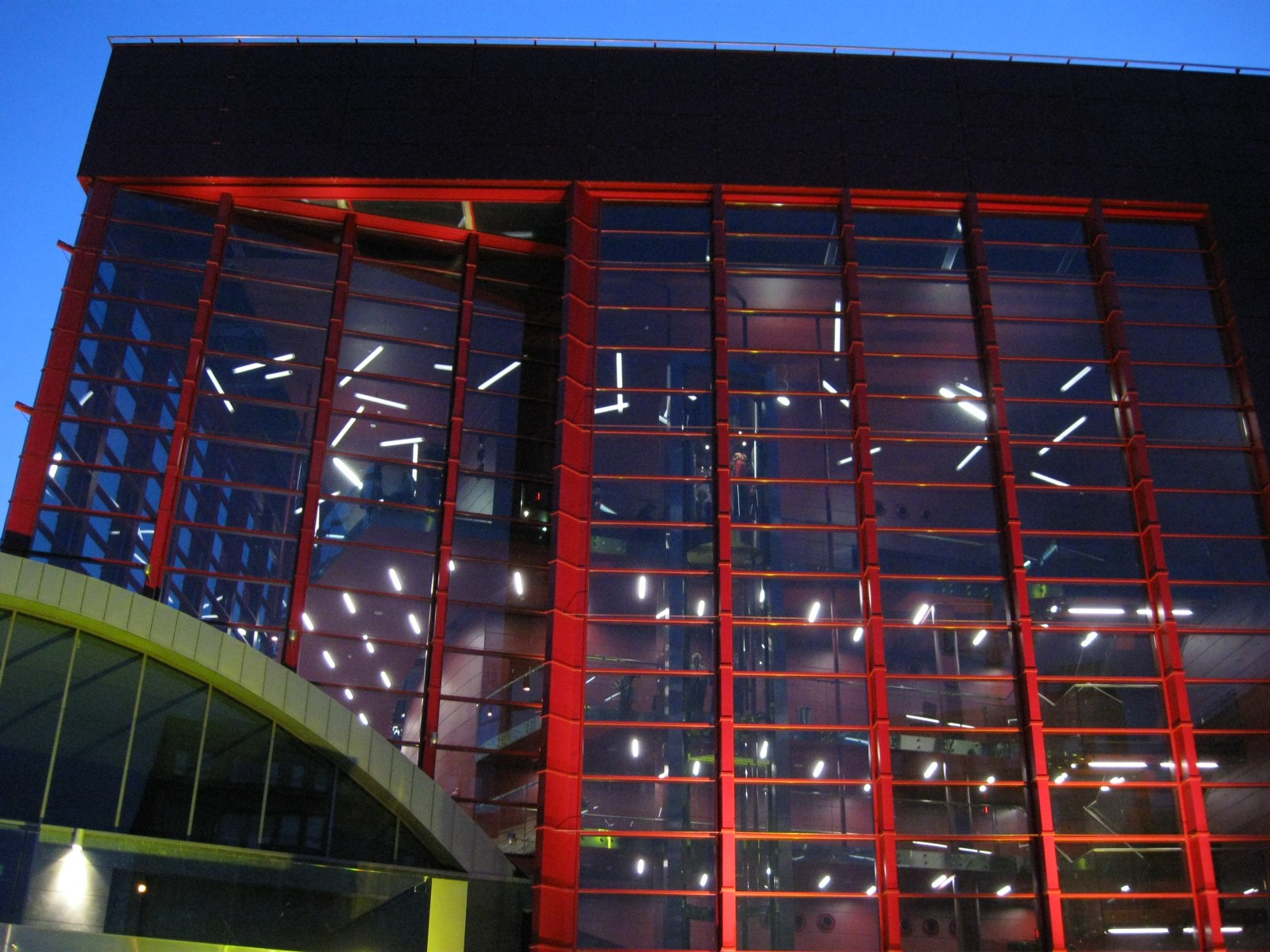 Opera Krakowska, new building